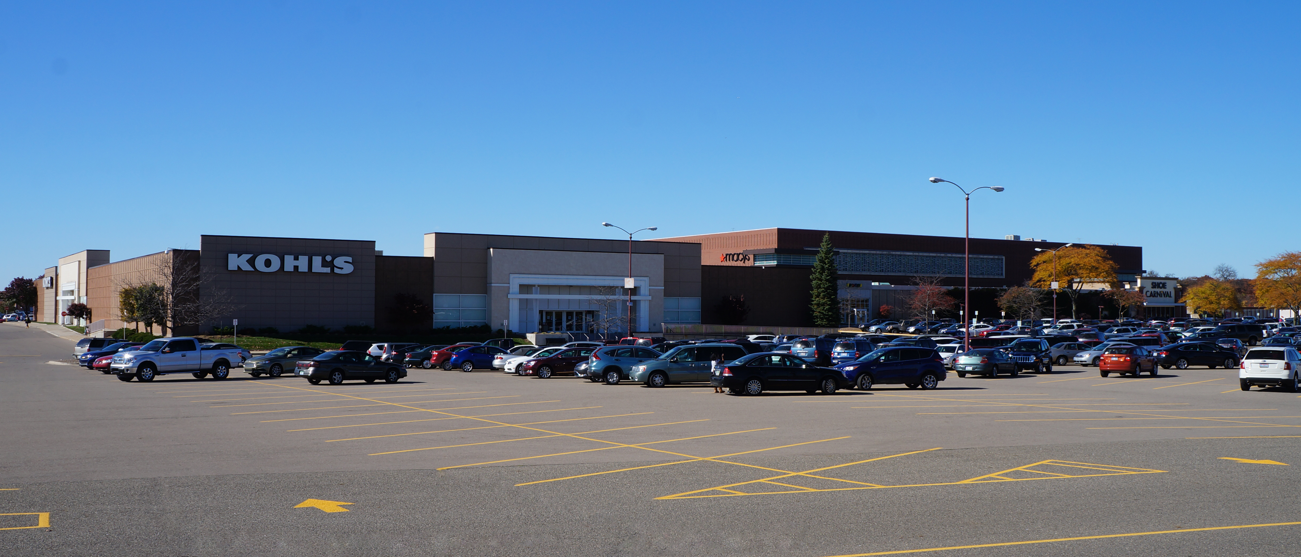 The East side of the Westland Shopping Center.